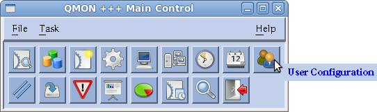 Qmon (GUI of Oracle Grid Engine, Open Grid Scheduler)